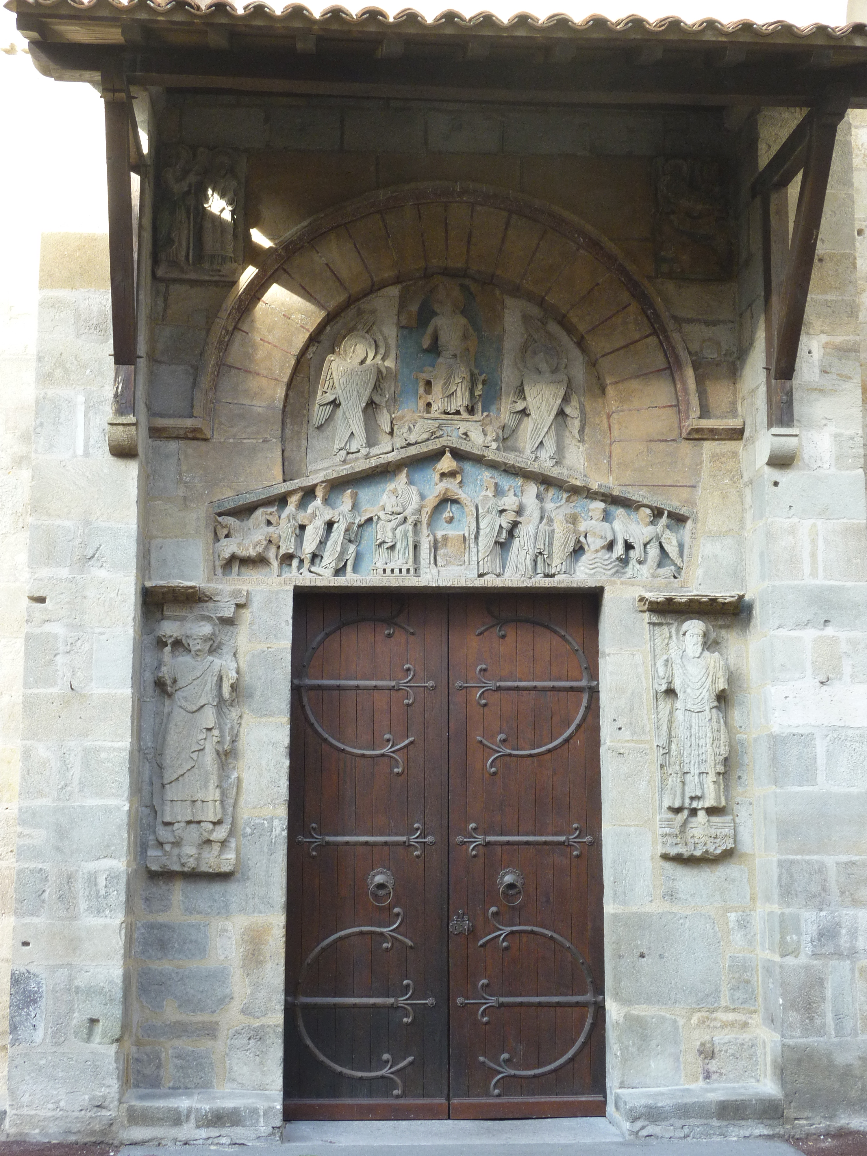 Basilique Notre-Dame du Port in Clermont-Ferrand. South portal.